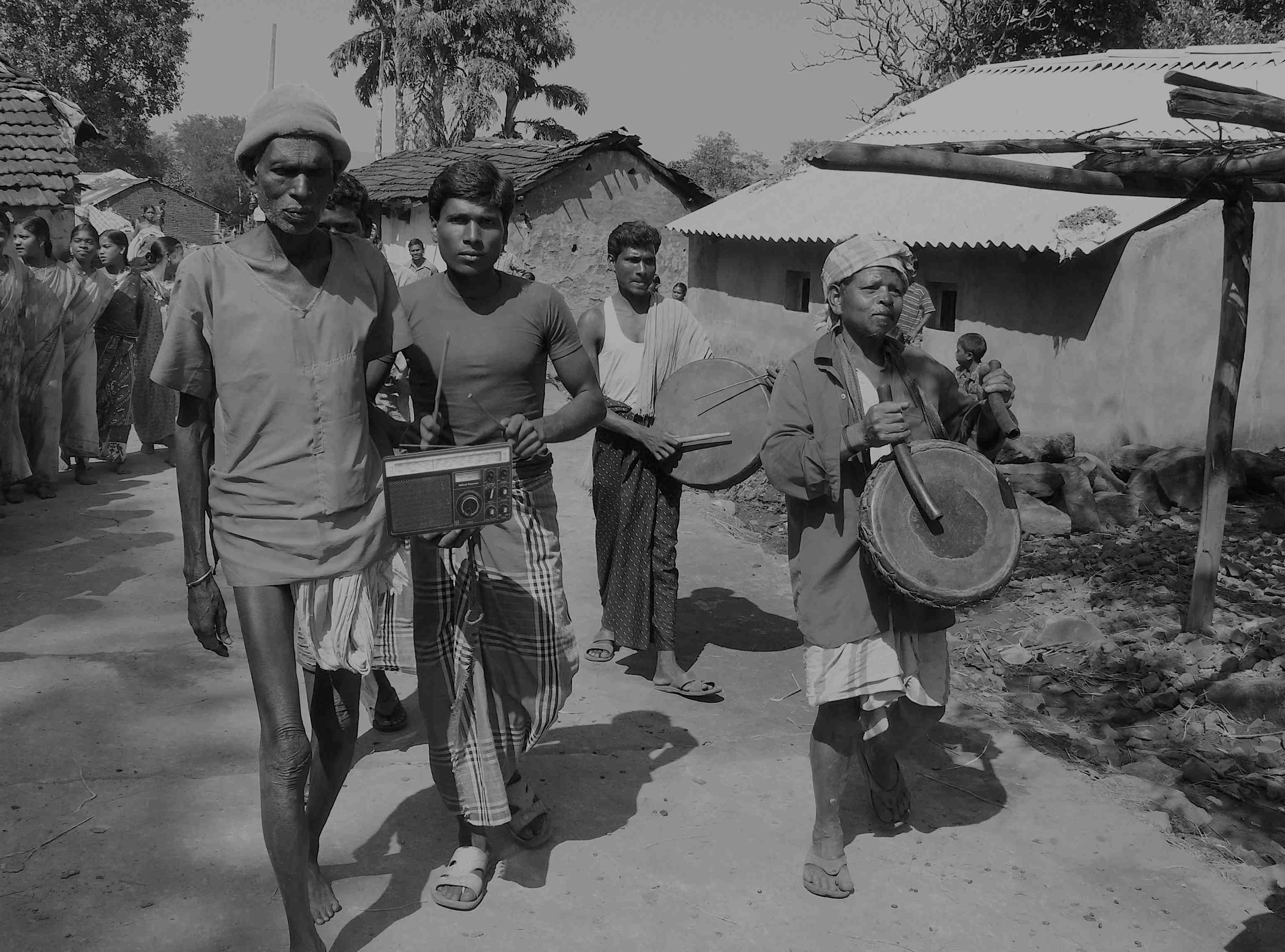 The Jhond Tribe wedding songs